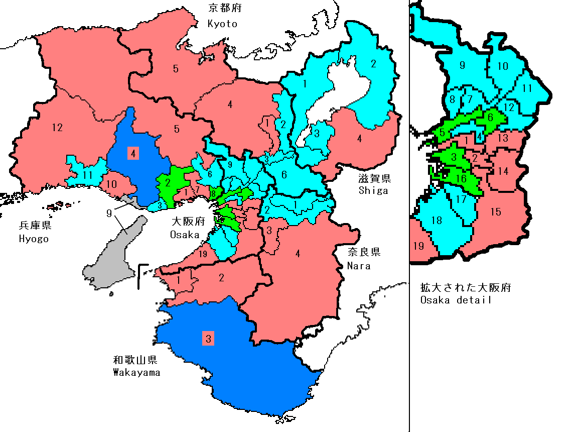 Presentation of the results of the Japan general election, 2003 in the single member districts of the Kinki block, based on district boundary information in :ja:衆議院小選挙区一覧 and mapping tools provided by Japanese Wikipedia User Koba-chan. Color codes: LDP - red DPJ - light blue New Komeito - green SDP - purple New Conservative Party - dark blue Other/Independent - gray Some independent politicians joined major parties immediately after the election, and their districts are marked with a colored square around the number. This is also true for the members of the New Conservative Party, which was wholly subsumed into the LDP.